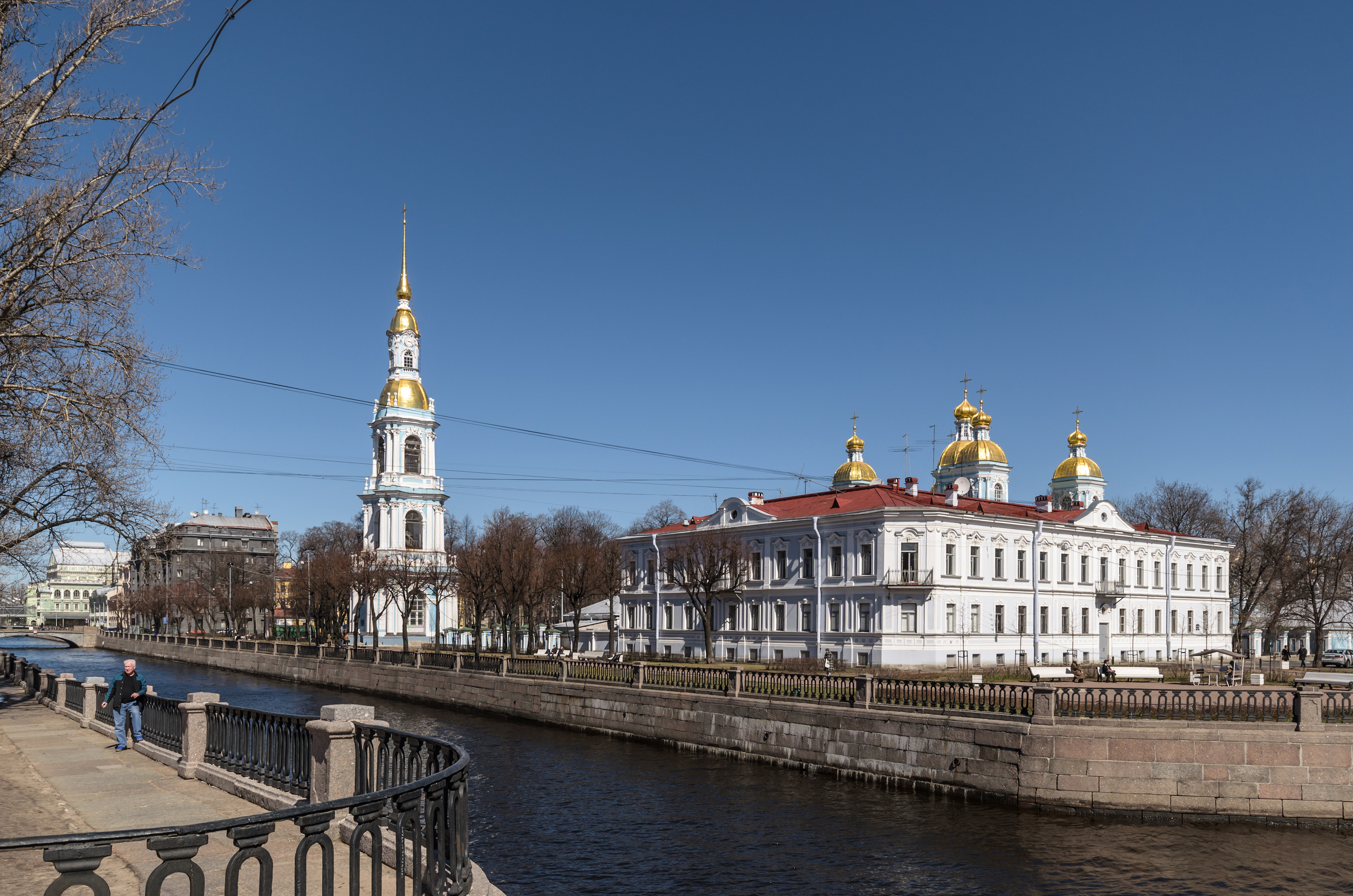 Krukov Channel in Saint Petersburg. View to Nikolsky square and belltower of Nikolsky Cathedral